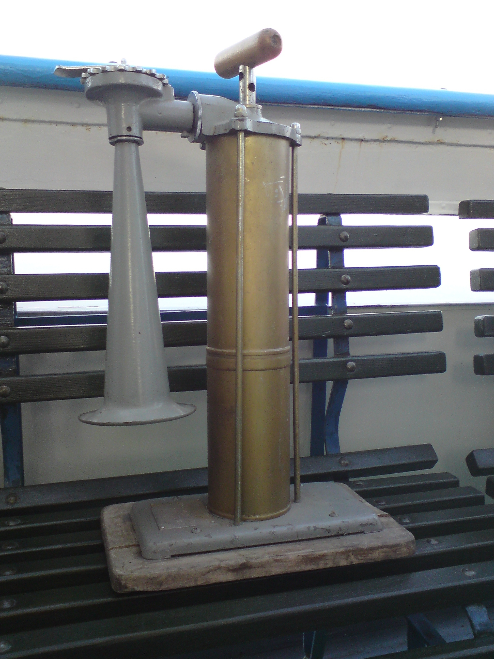 maritime hand portable acoustic or fog signal, made in Poland - called TYFON